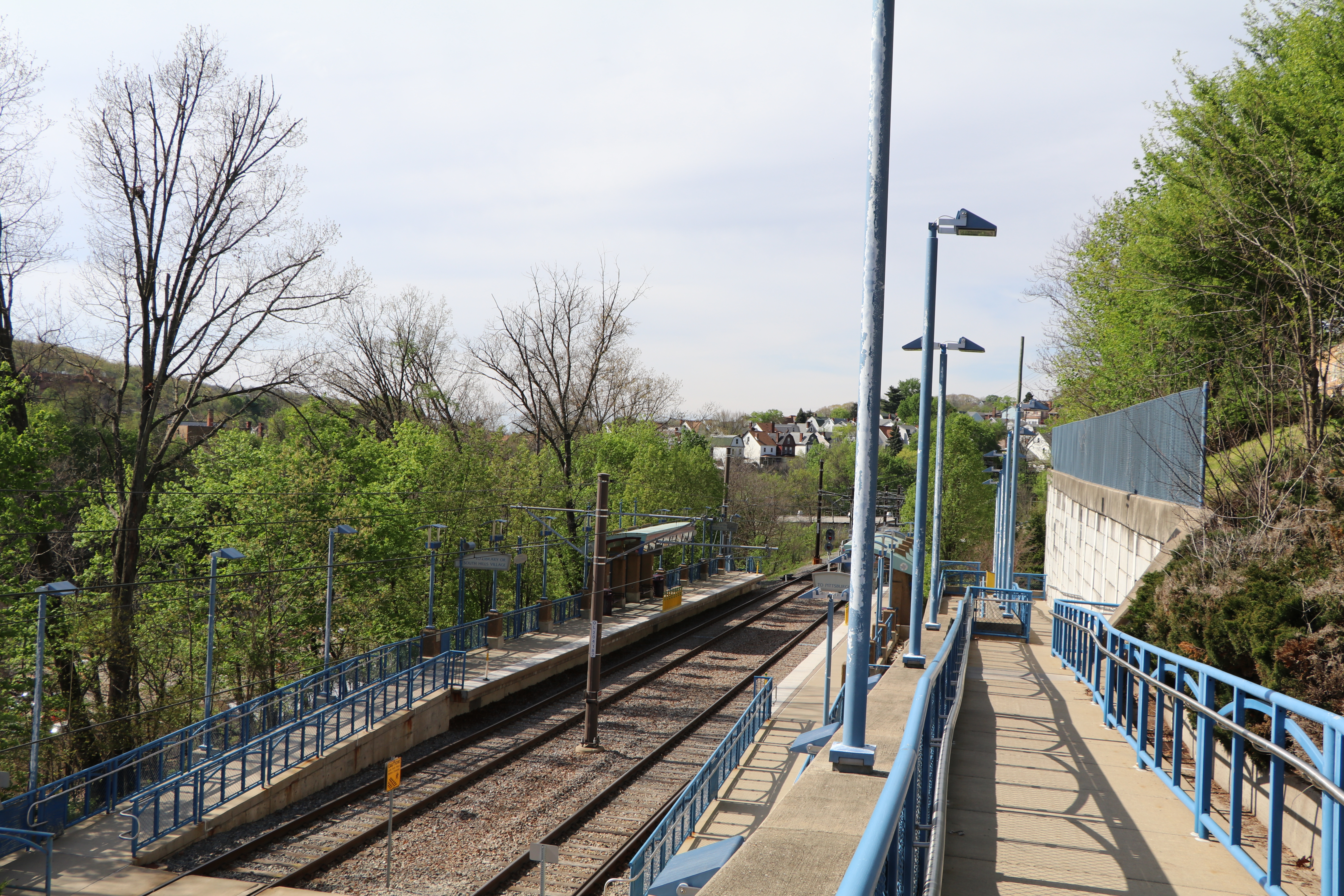 Boggs station on the Blue Line, Pittsburgh, PA. View looking north, with the inbound platform on the right.